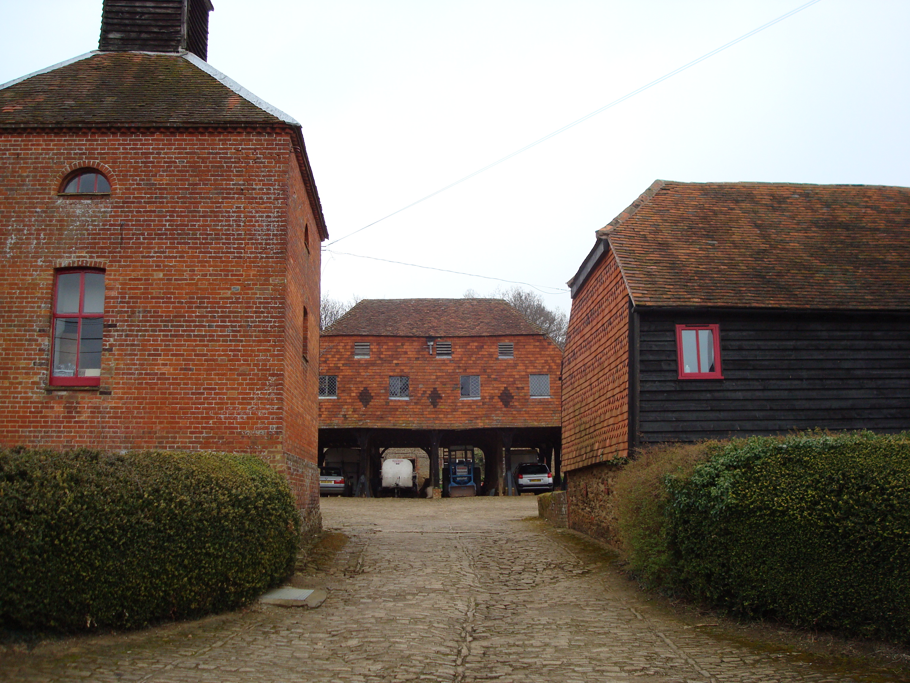 Dovecote, granary and barn at Peper Harrow, Surrey. S Knights, March 2008, my photo